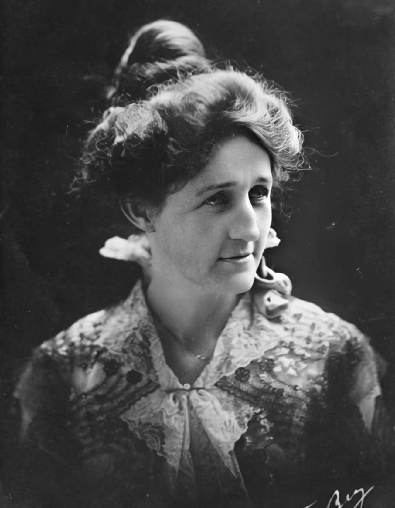 Miriam Amanda Wallace Ferguson (1875 - 1961), American politician. This image was taken of Miriam Amanda Wallace Ferguson when she was First Lady of Texas, prior to her being elected Governor in her own right.